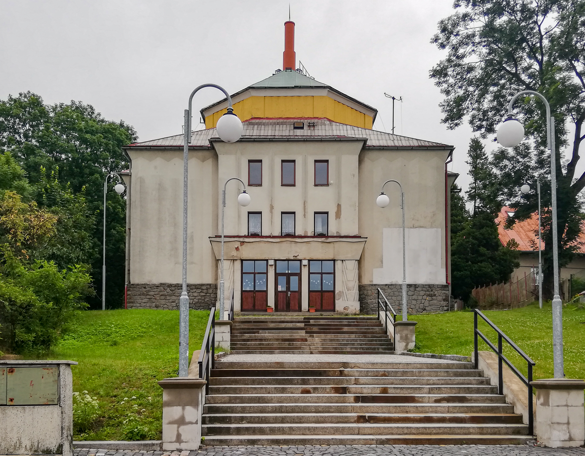 "Hvězda" Cinema in Kamenický Šenov, Czech republic. It was built in 1926 as a cinema and a theater. After 1970, the interior of the building was modified and from 1980, the screening of films began. In 2007, the sound system was converted to a Dolby stereo system. Due to low attendance, the city decides at the beginning of 2013 on further use of the building.